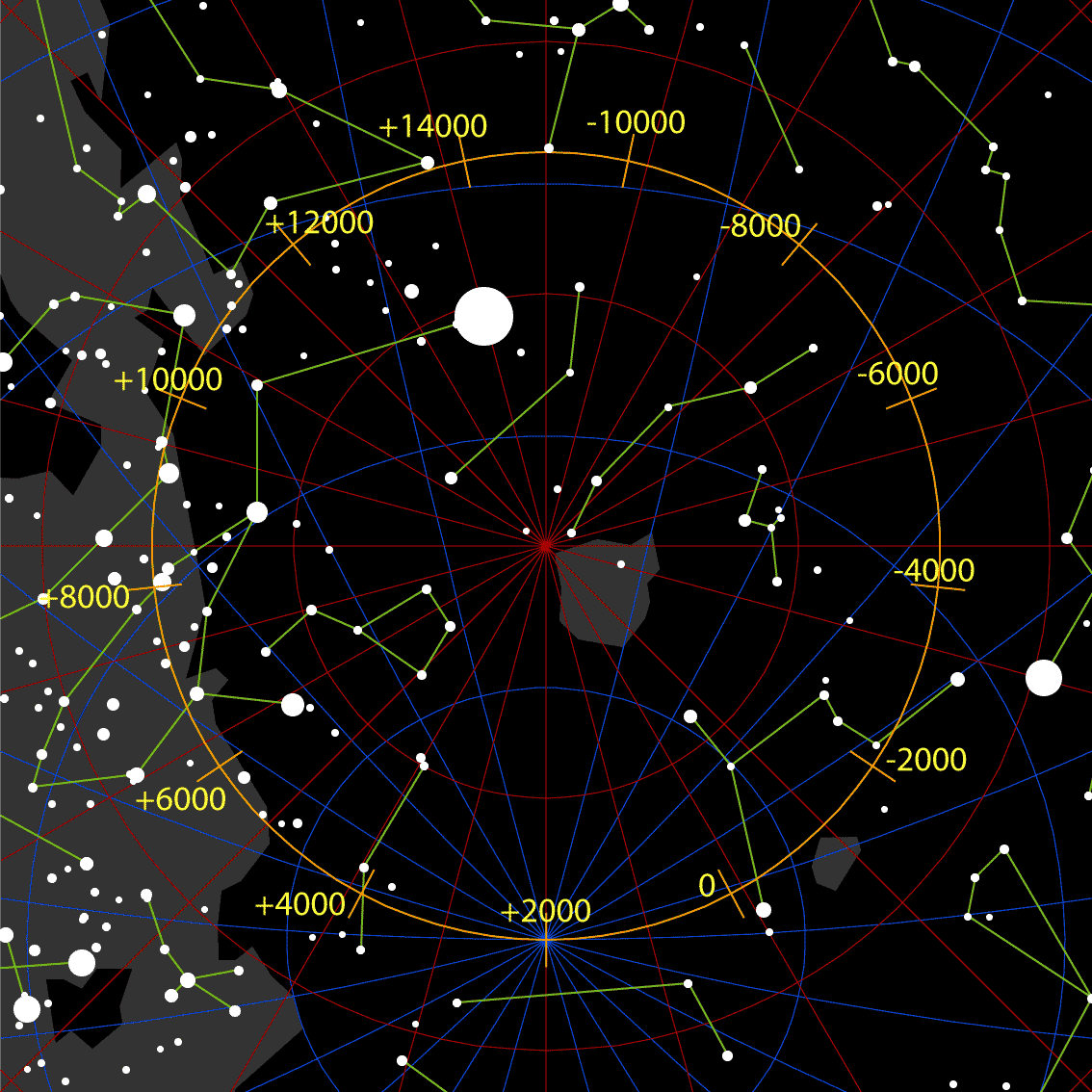 The path of the south celestial pole among the stars due to the precession (assuming constant precessional speed and obliquity of JED 2000)